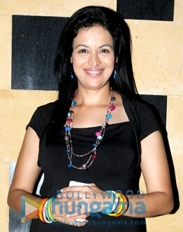 Jyoti Gauba at success bash of Ek Mutthi Aasmann